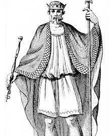 Ethelwulf of Wessex. An imaginary portrait by an unknown 18th century artist.